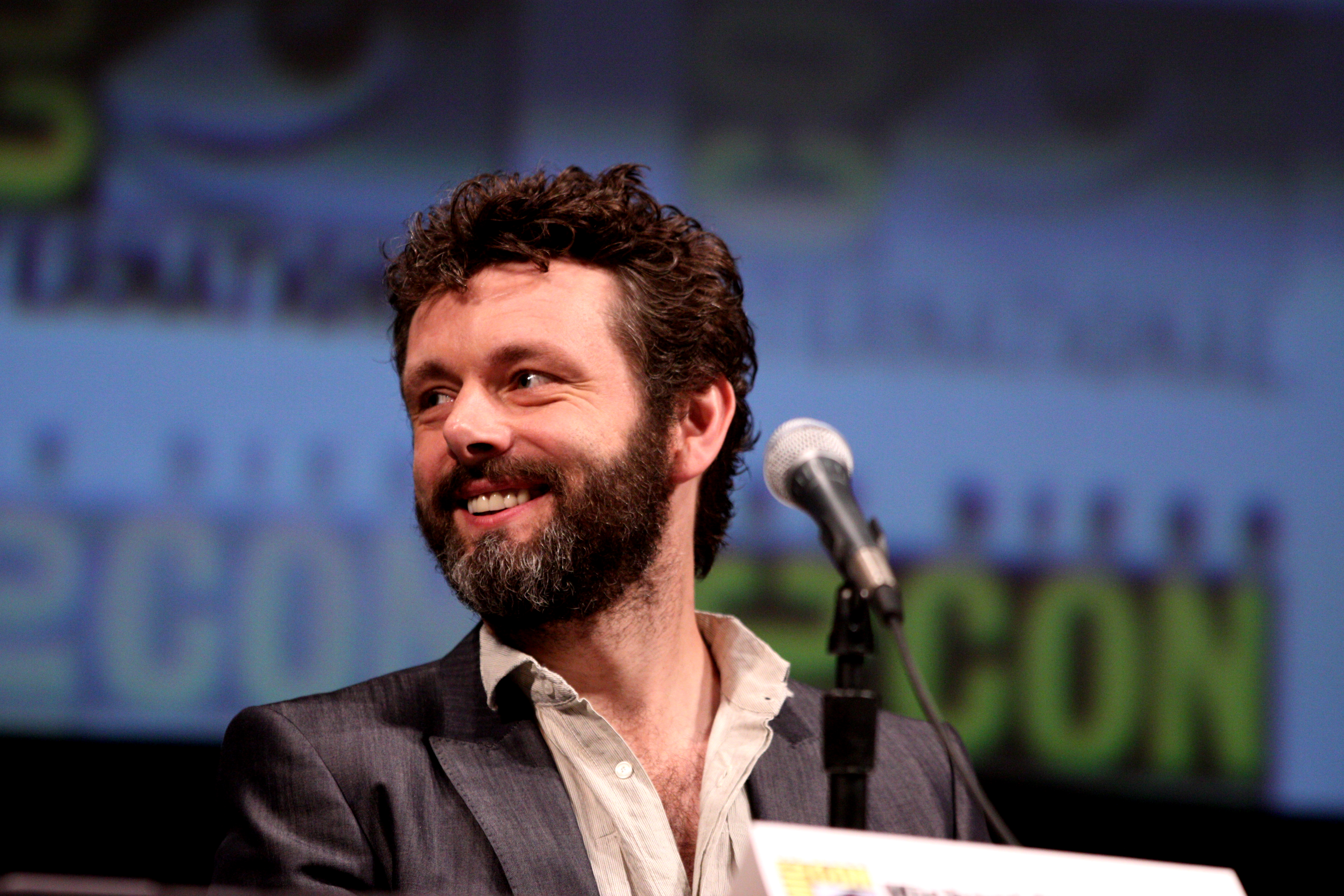 Actor Michael Sheen on the Tron: Legacy panel at the 2010 San Diego Comic Con in San Diego, California.